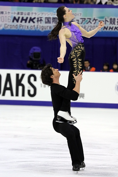 Tessa Virtue and Scott Moir at the 2016 NHK Trophy